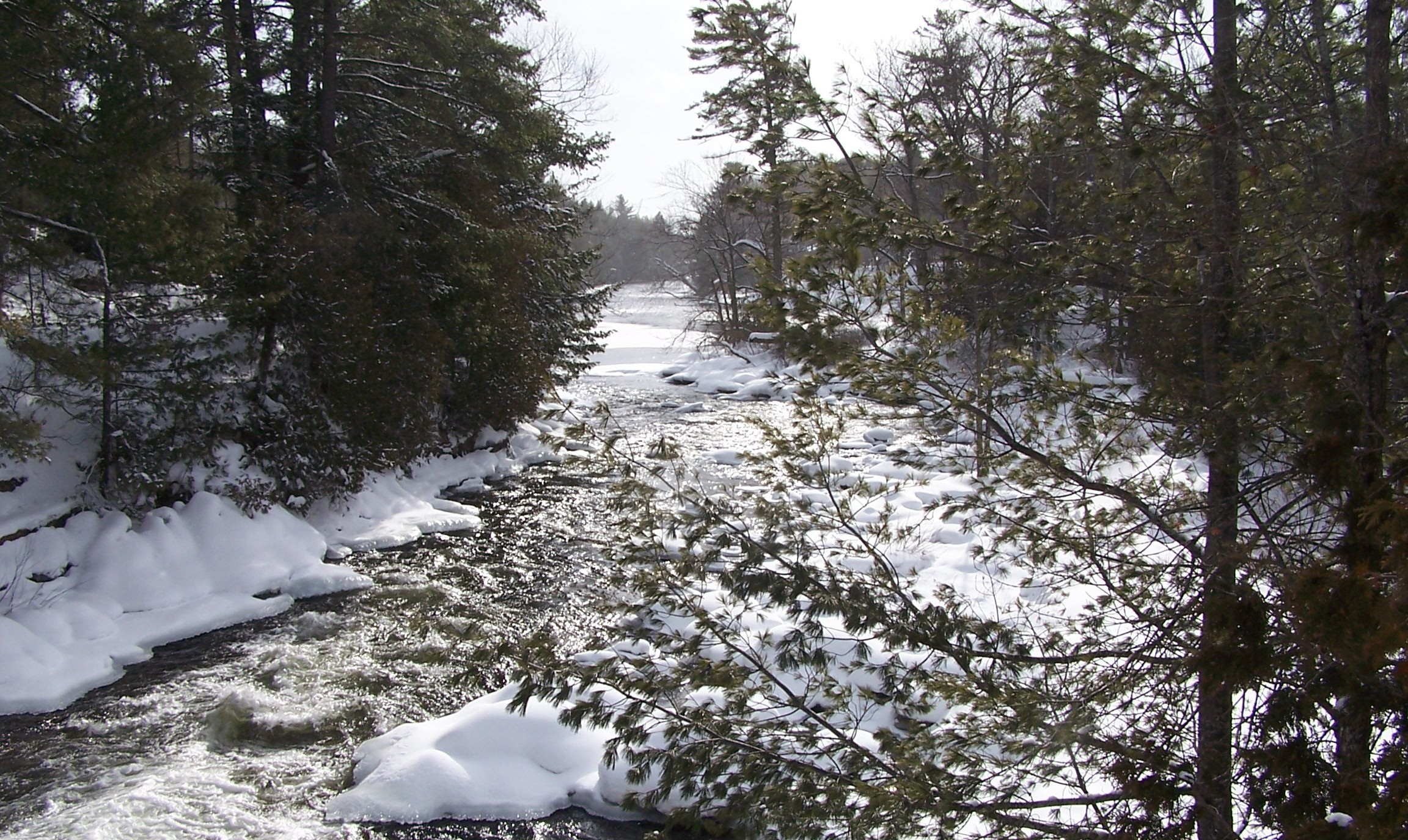 Looking down the falls.